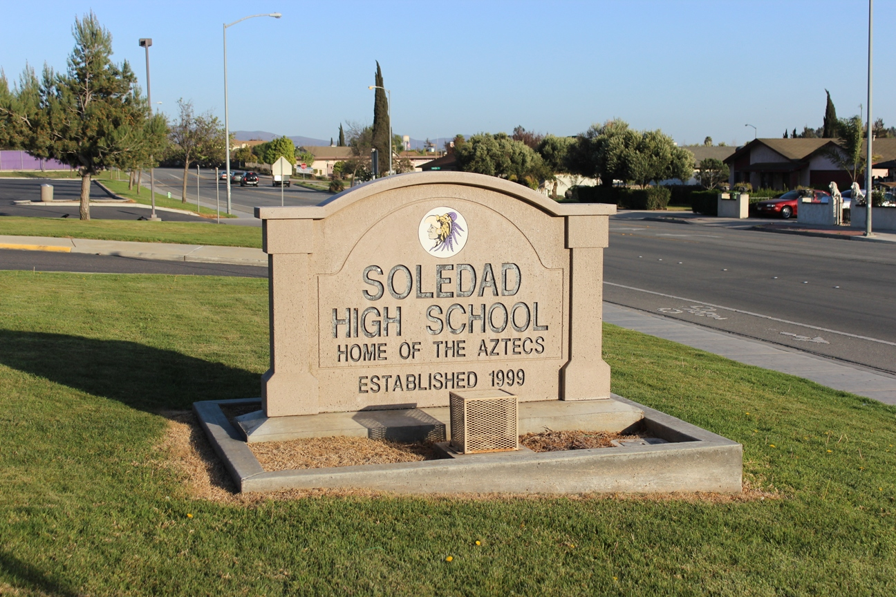 Alumni Contribution